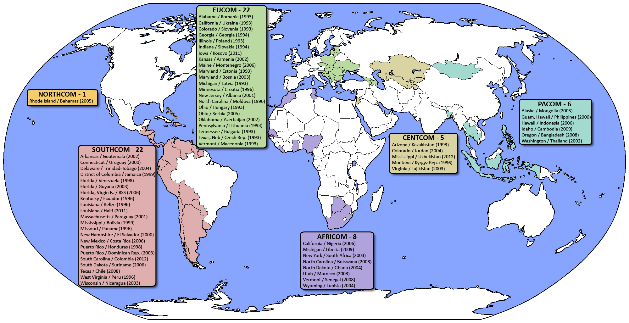 A 2012 world map of all SPP partnerships.